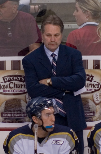 In chronological sequence these are 78 views of Long Beach Ice Dogs' coach Rick Adduono during the second period of the March 30, 2007 game against the Idaho Steelheads in Boise, Idaho. In this period Idaho did not score a goal and LB scored two goals. The two pictures with a blue border show Rick Adduono's immediate reaction following goals by LB's Brad Bonello and Chris Collins.